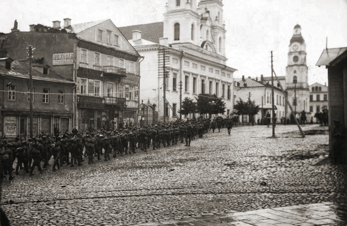 Troops of Polish Army entering Minsk. Polish-Soviet war.